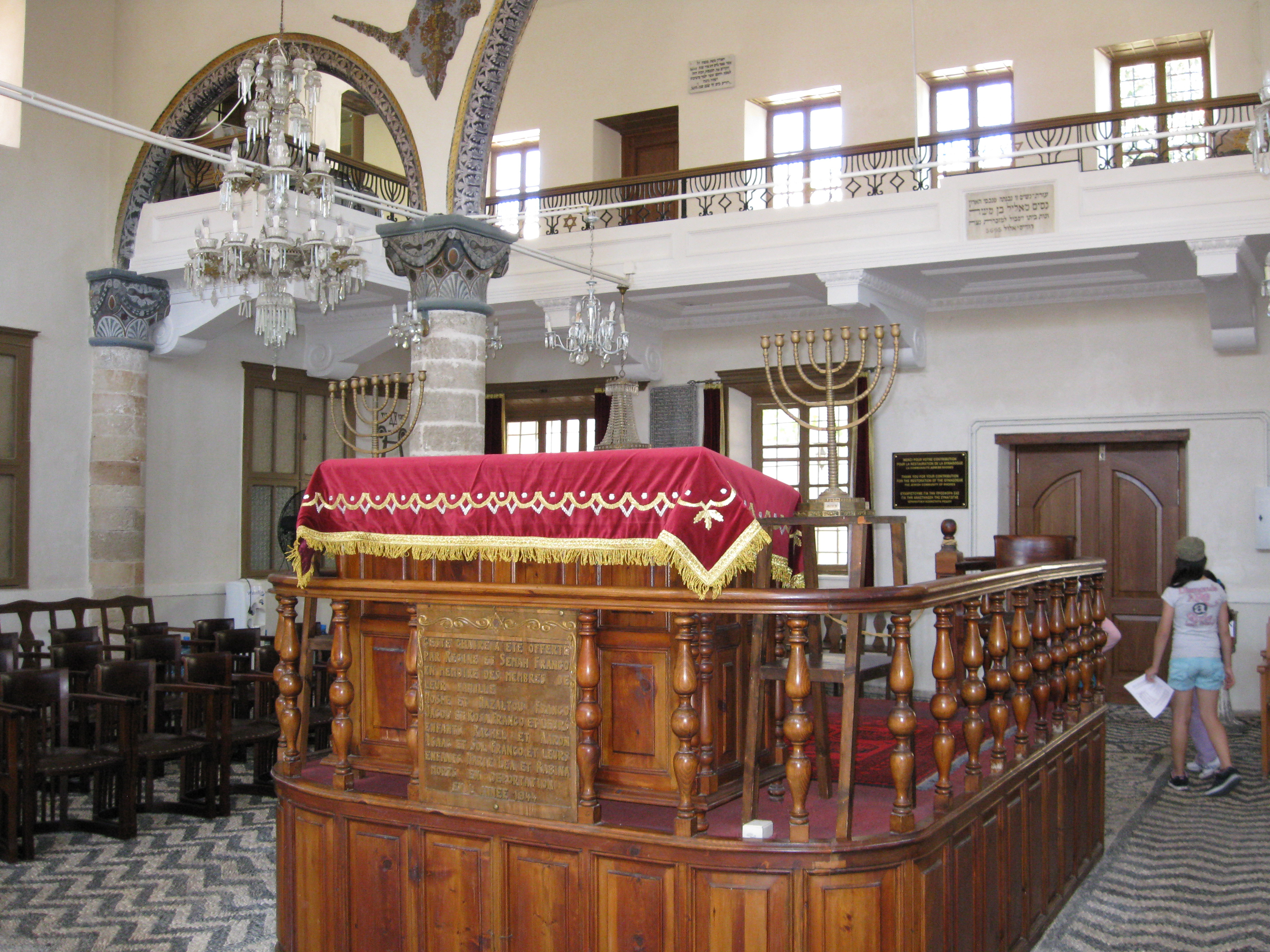 Interior of Jewish synagogue in Rhodes, Greece.